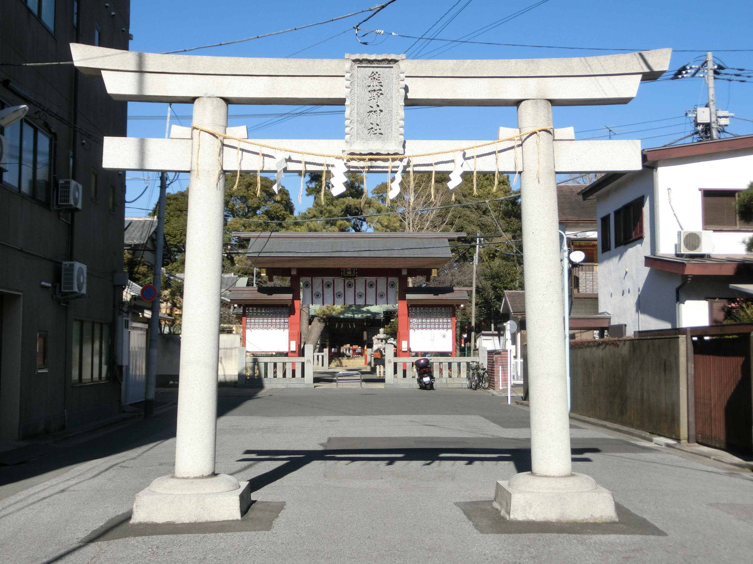 Kumano Jinja (Katsushika)